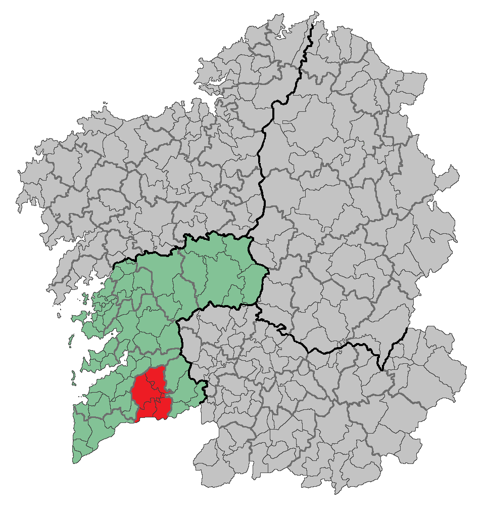 Region of Galicia (Spain)Based in: Image:Location of Betanzos.png Source: Designed by Leoplus. Original picture, designed by Caiser over a work made by Alyssalover.